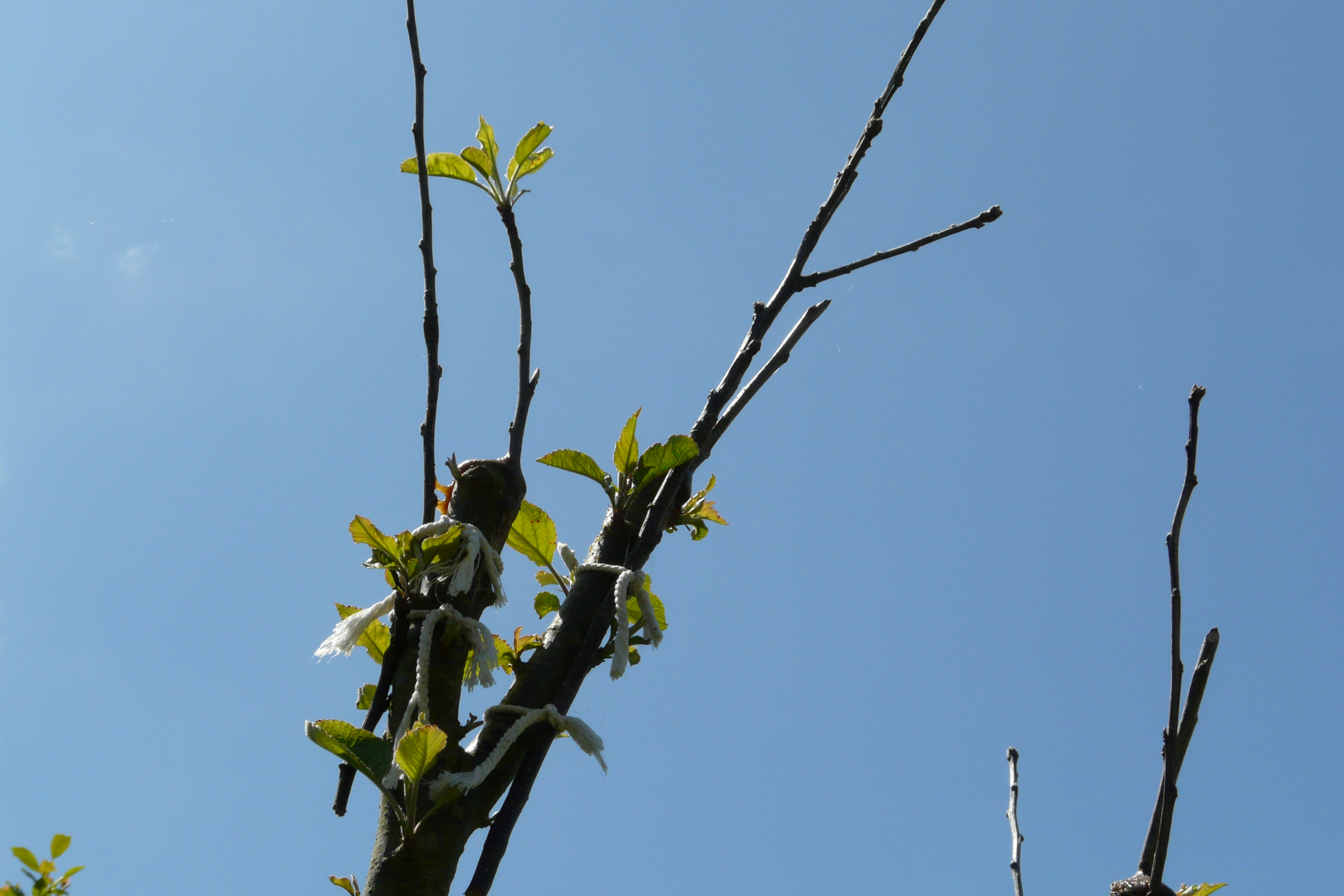 Grafting on a apple tree after less than one mounth.